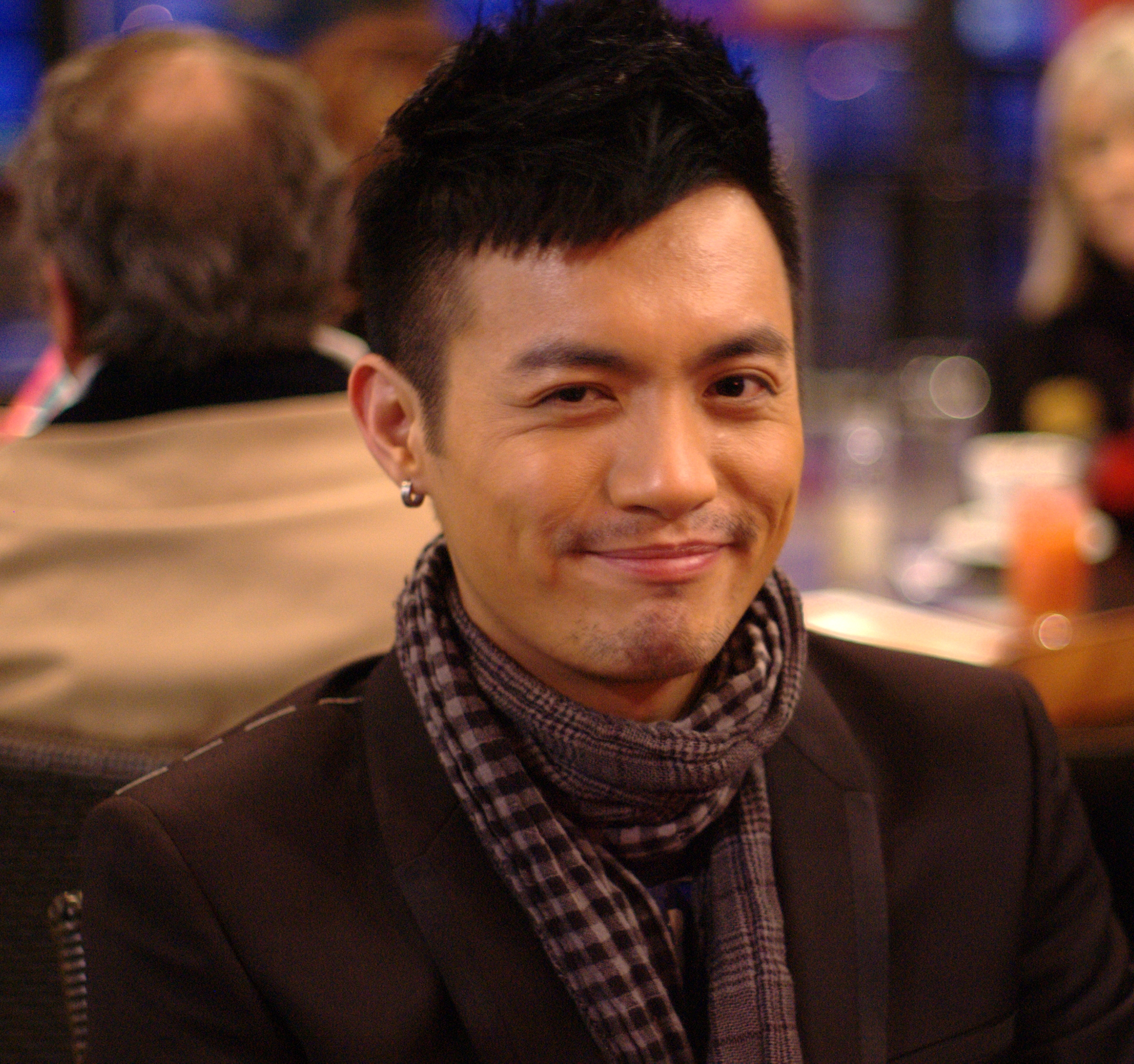 Van Fan (范逸臣 Fàn Yìchén), Taiwanese singer and actor. Picture taken during Vesoul international film festival of Asian cinema, 2009